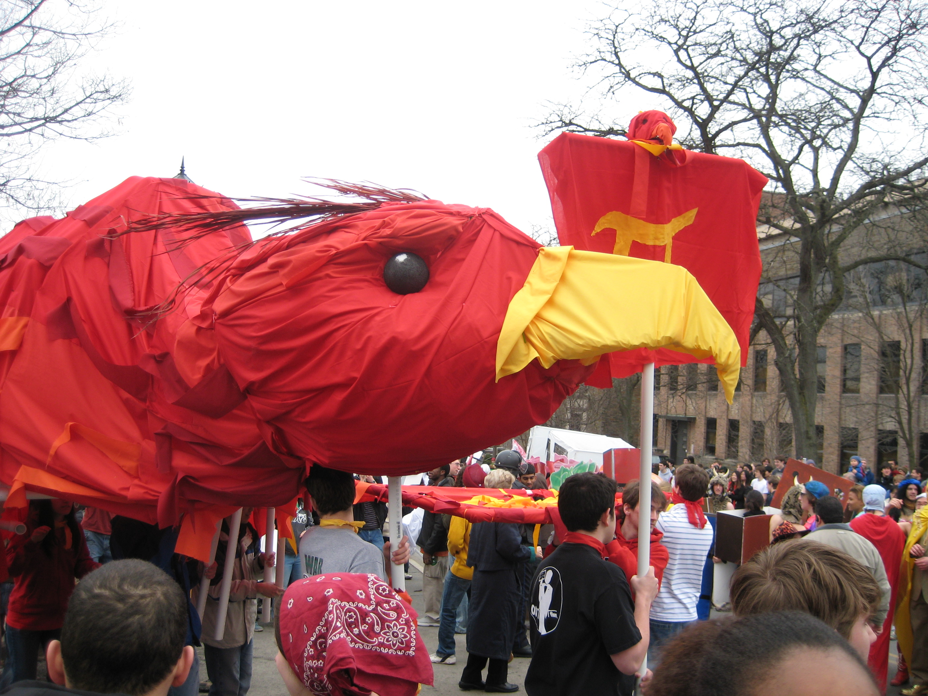 The Engineer's Phoenix at Cornell University's Dragon Day in 2008